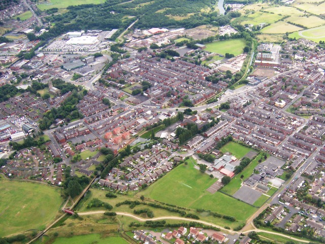 Aerial photograph of Radcliffe Aerial view looking Southwards at Radcliffe. At the bottom of the picture the edge of the new (1990s) housing estate can just be seen. Above that are the two primary schools; Gorsefield and St Mary's. Running diagonally from bottom left to top right (Northeast to Southwest) is the Bury & Bolton Canal. The major Road from right to left (West to East) is Bolton Road, which then turns Southwards becoming first Water Street and then Pilkington Way which passes the Asda Supermarket. At the extreme top left of the picture (South) is Outwood Road, running up the hill towards Outwood and Ringley